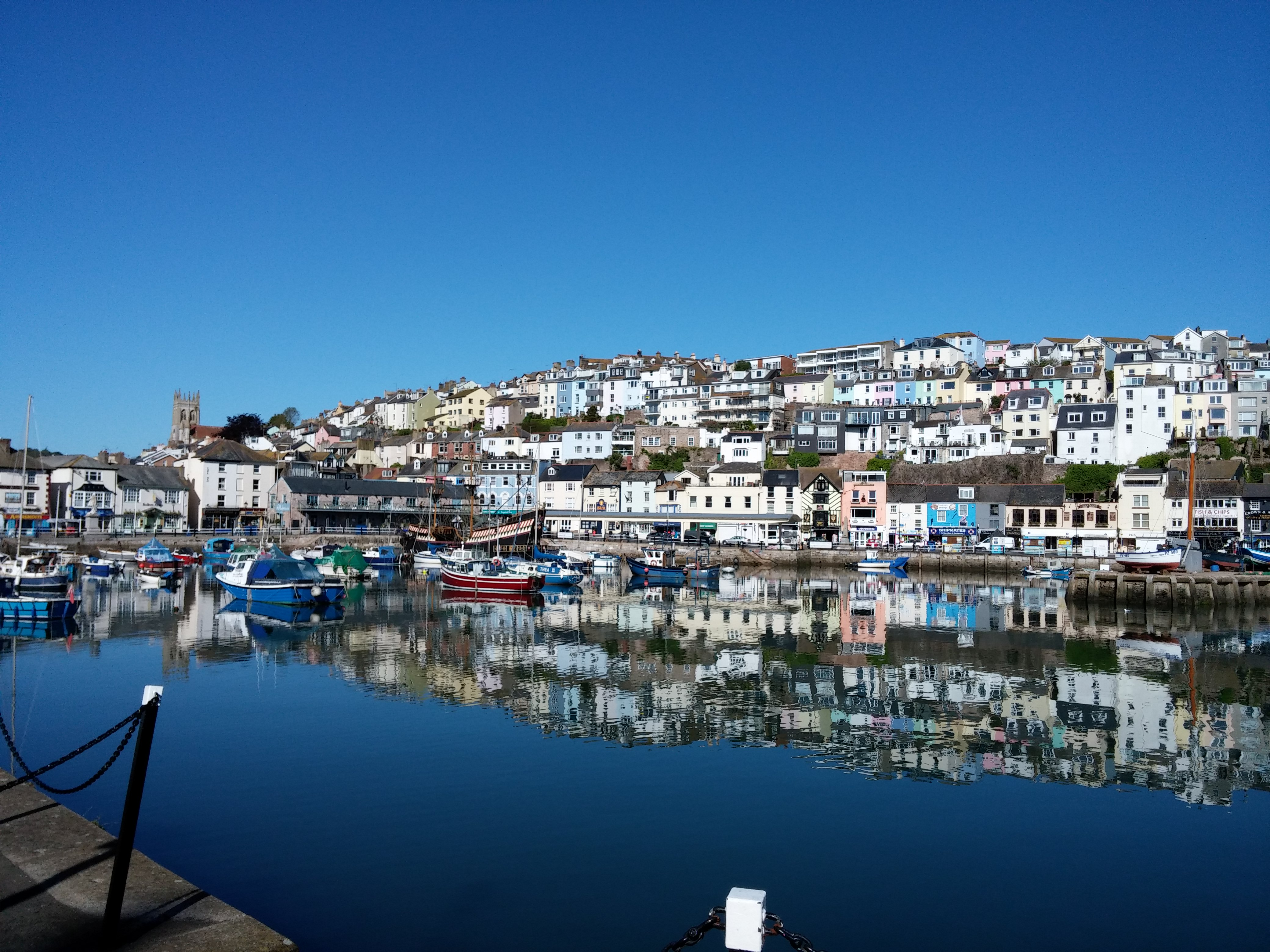 Brixham harbour in summer